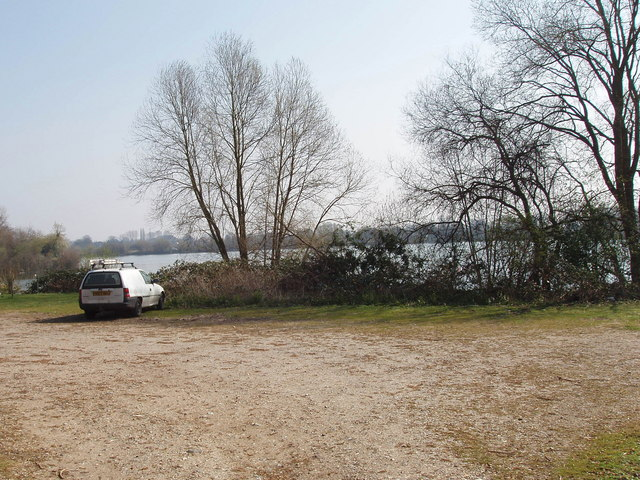 Taplow Lake View at the entrance to Taplow Lake Sailing Club For more information and photos for Taplow see community website